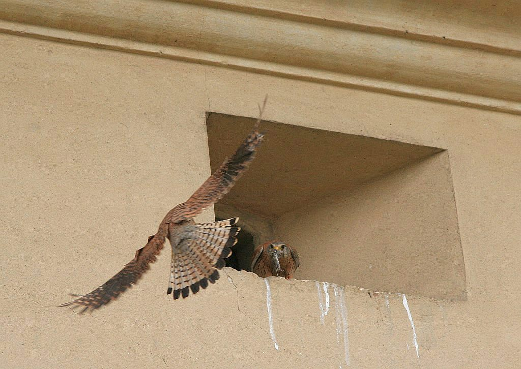 Falco tinnunculus, Pieskowa Skała castle, Poland 2007, male feeds female Neither bird looks like a male.